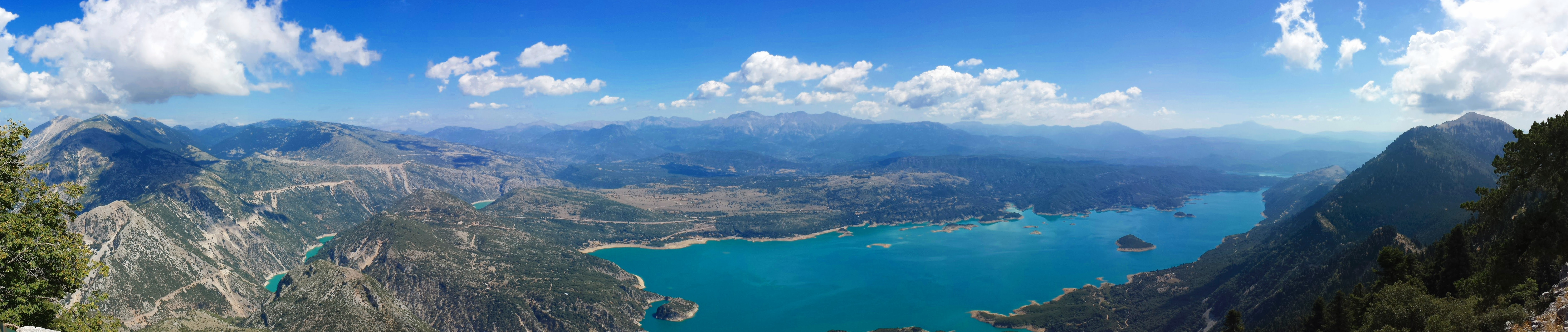 This is a photography of Natura 2000 protected area with ID GR2310012